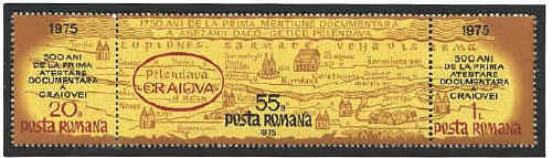 Category:Stamps of Romania